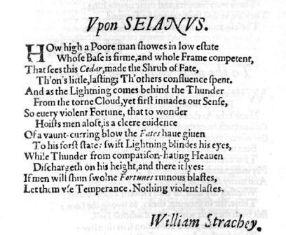 This is a prefatory poem written by William Strachey that was published in the first edition of Jonson's Sejanus